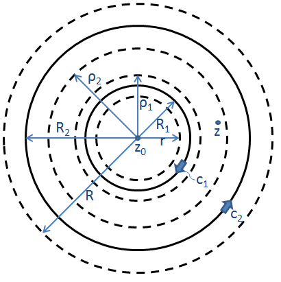 circles of integration for theorem of Laurentseries proof.